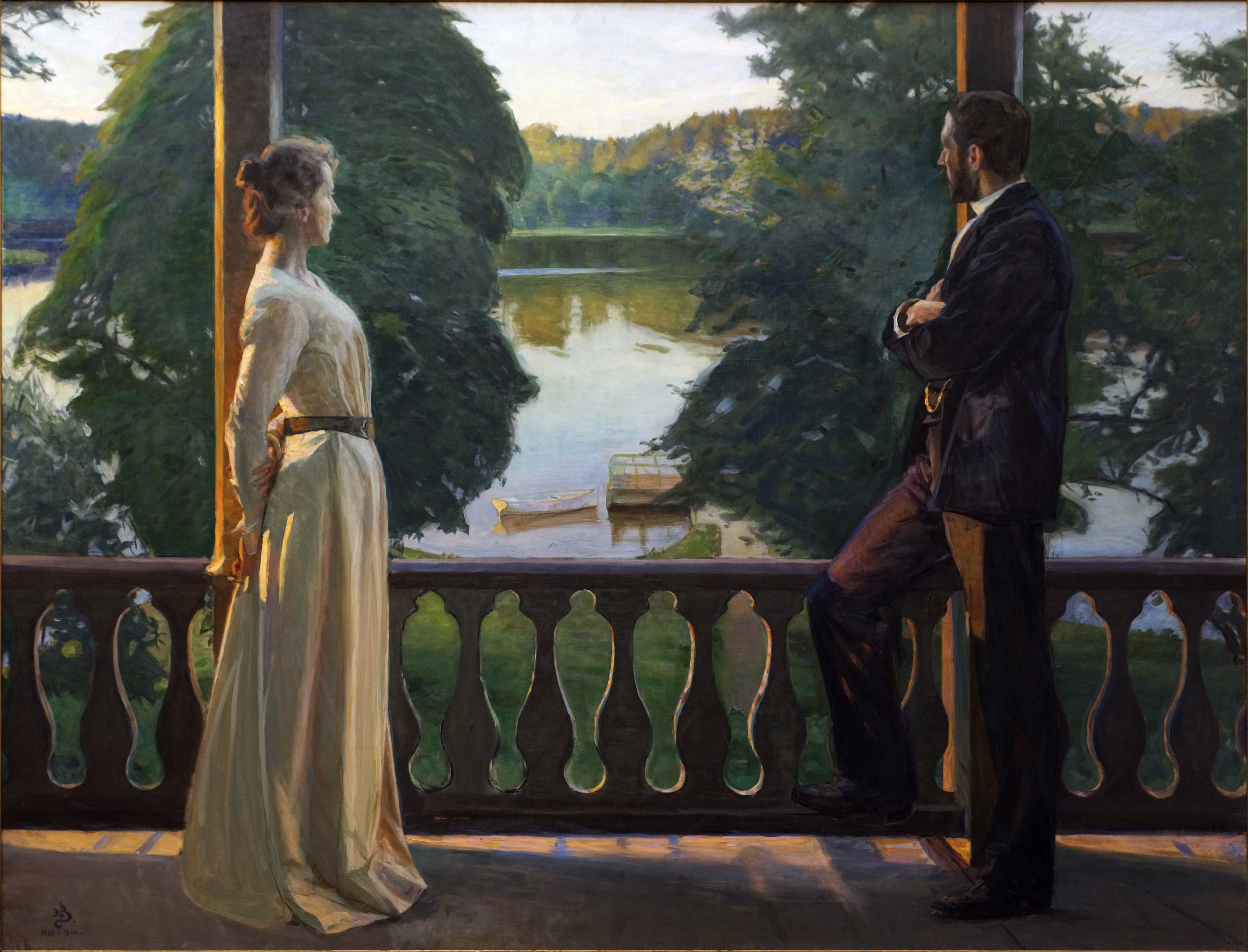 This is a photo of an artwork at the Gothenburg Museum of Art in Sweden with the identifier: F 7